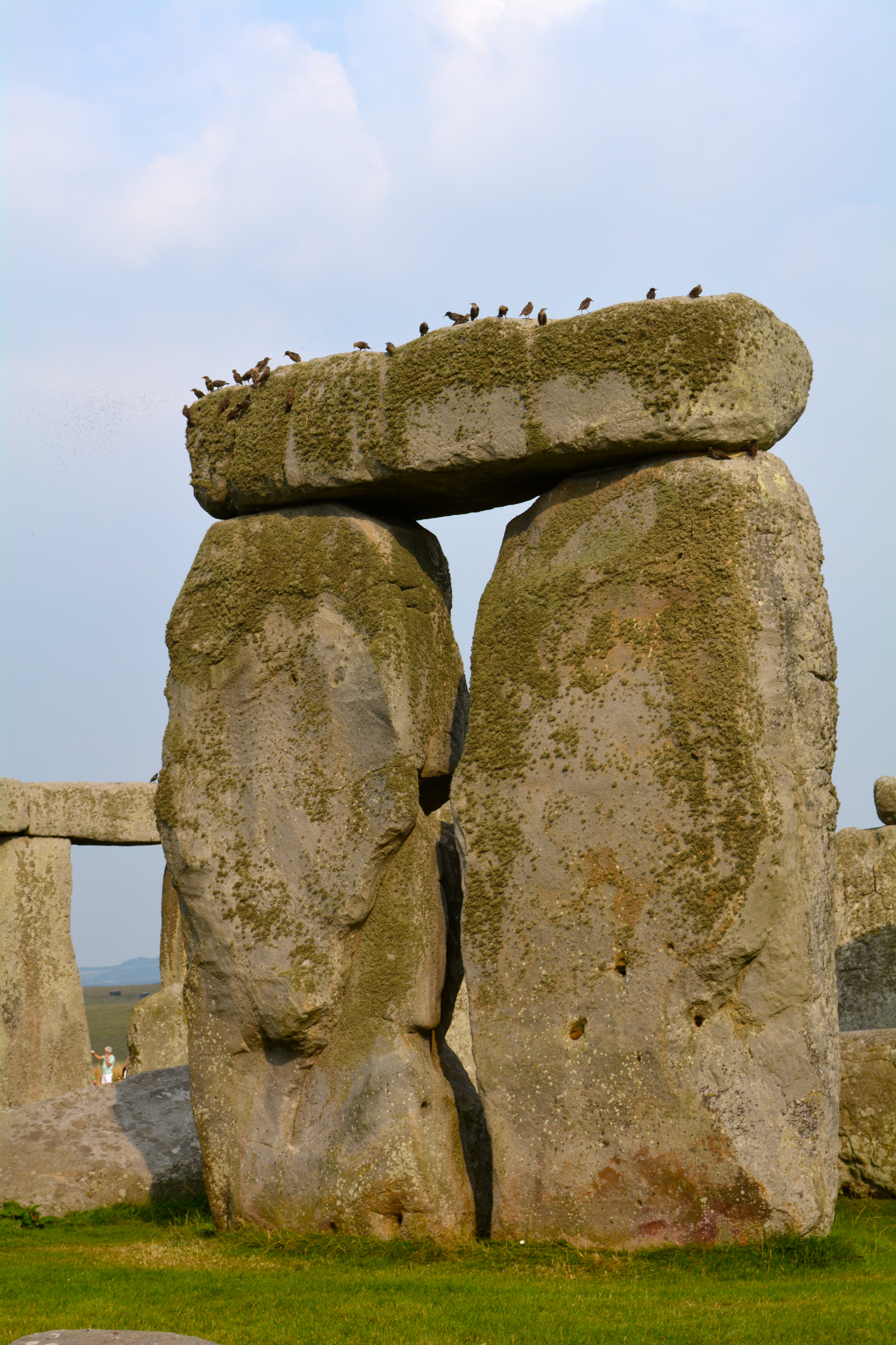 A beautiful Stonehenge trilithon crowned with birds.